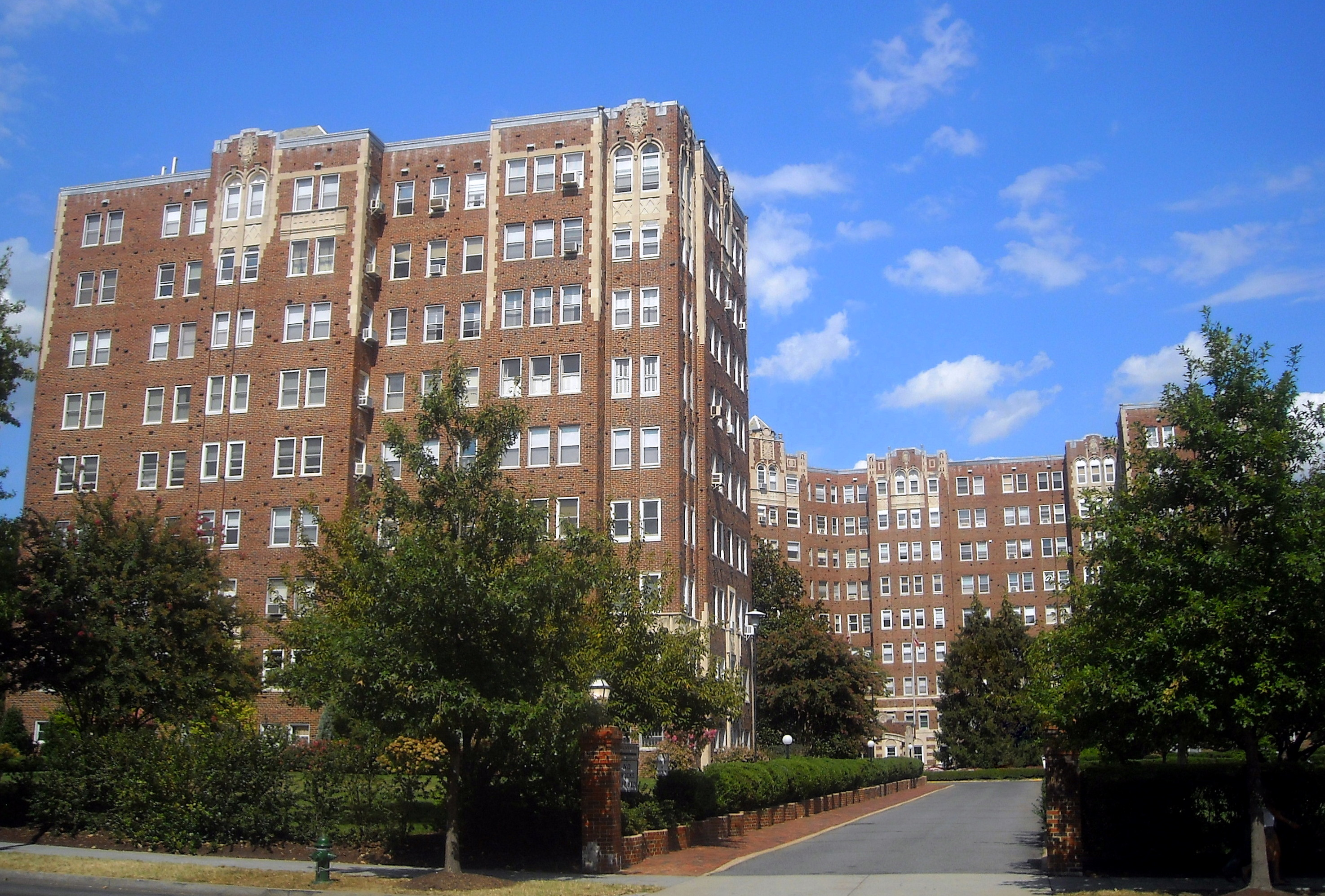 The Broadmoor located at 3601 Connecticut Avenue, NW in the Cleveland Park neighborhood of Washington, D.C. The Eclectic-style building was designed by Joseph H. Abel in 1928 and is a contributing property to the Cleveland Park Historic District.